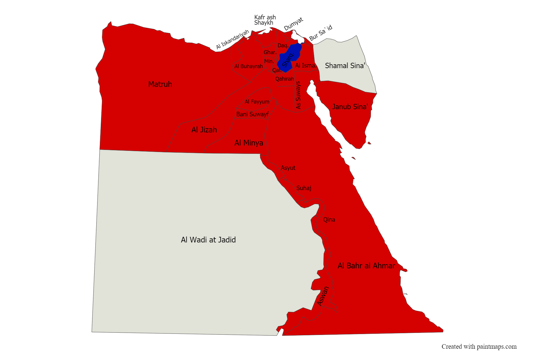 This map gives the latest breakdown of COVID-19 outbreak in Egypt, in provinces.